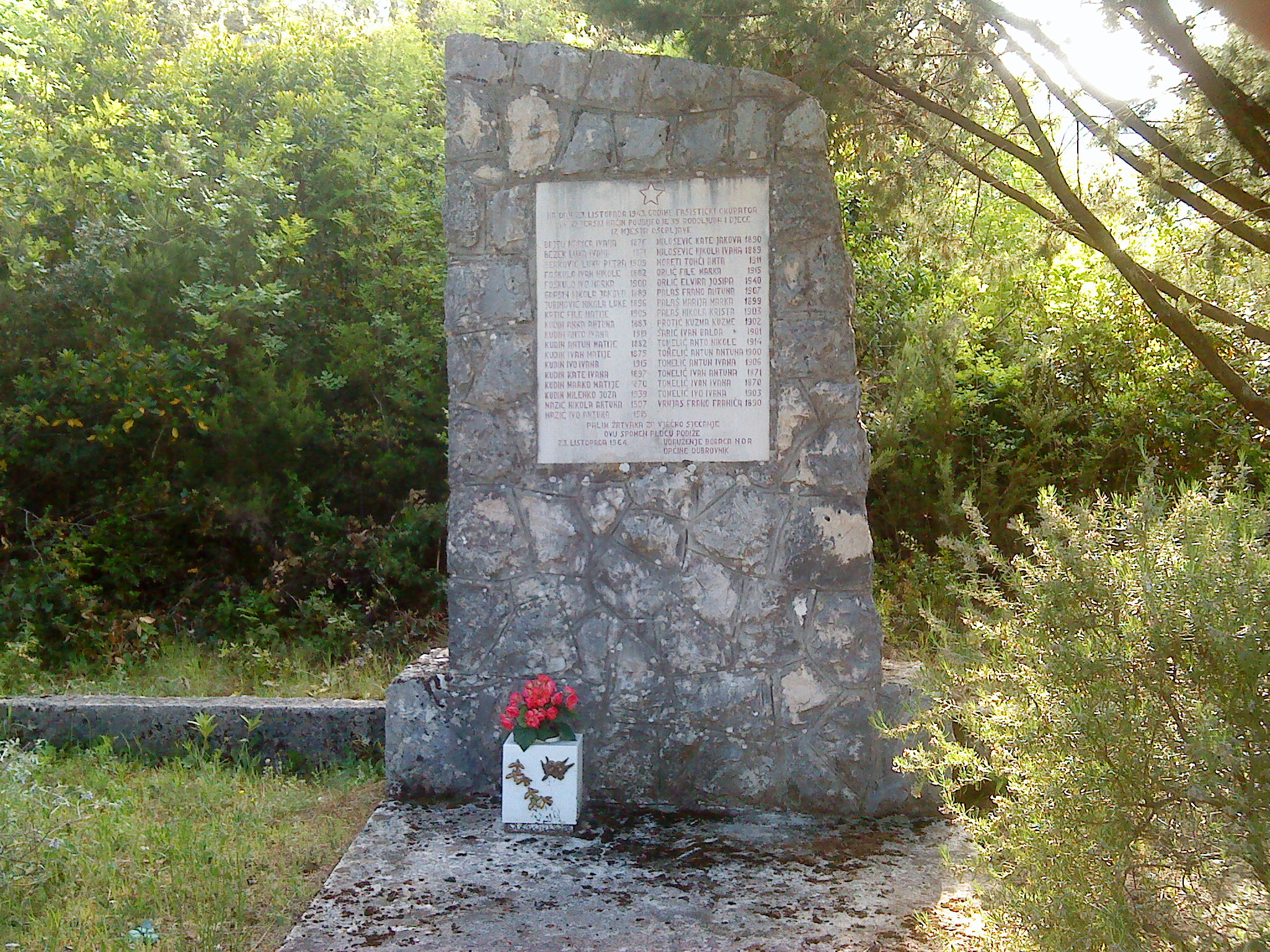 partizan monument in Osobjava